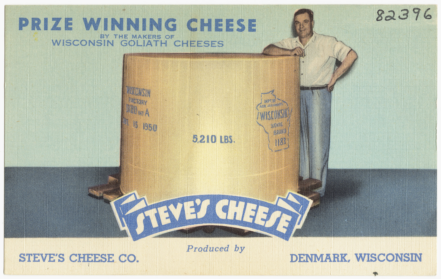 File name: 06_10_020039 Title: Prize winning cheese by the makers of Wisconsin Goliath Cheeses, Steve's Cheese produced by Steve's Cheese Co., Denmark, Wisconsin Created/Published: Pub. by J. A. Fagan Publishing Co., Madison, Wis. Date issued: 1930-1945 (approximate) Physical description: 1 print (postcard) : linen texture, color ; 3 1/2 x 5 1/2 in. Genre: Postcards Subjects: Notes: Title from item. Collection: The Tichnor Brothers Collection Location: Boston Public Library, Print Department Rights: No known restrictions